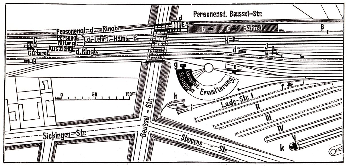 Berlin - railway station Beusselstraße, situation plan 1896